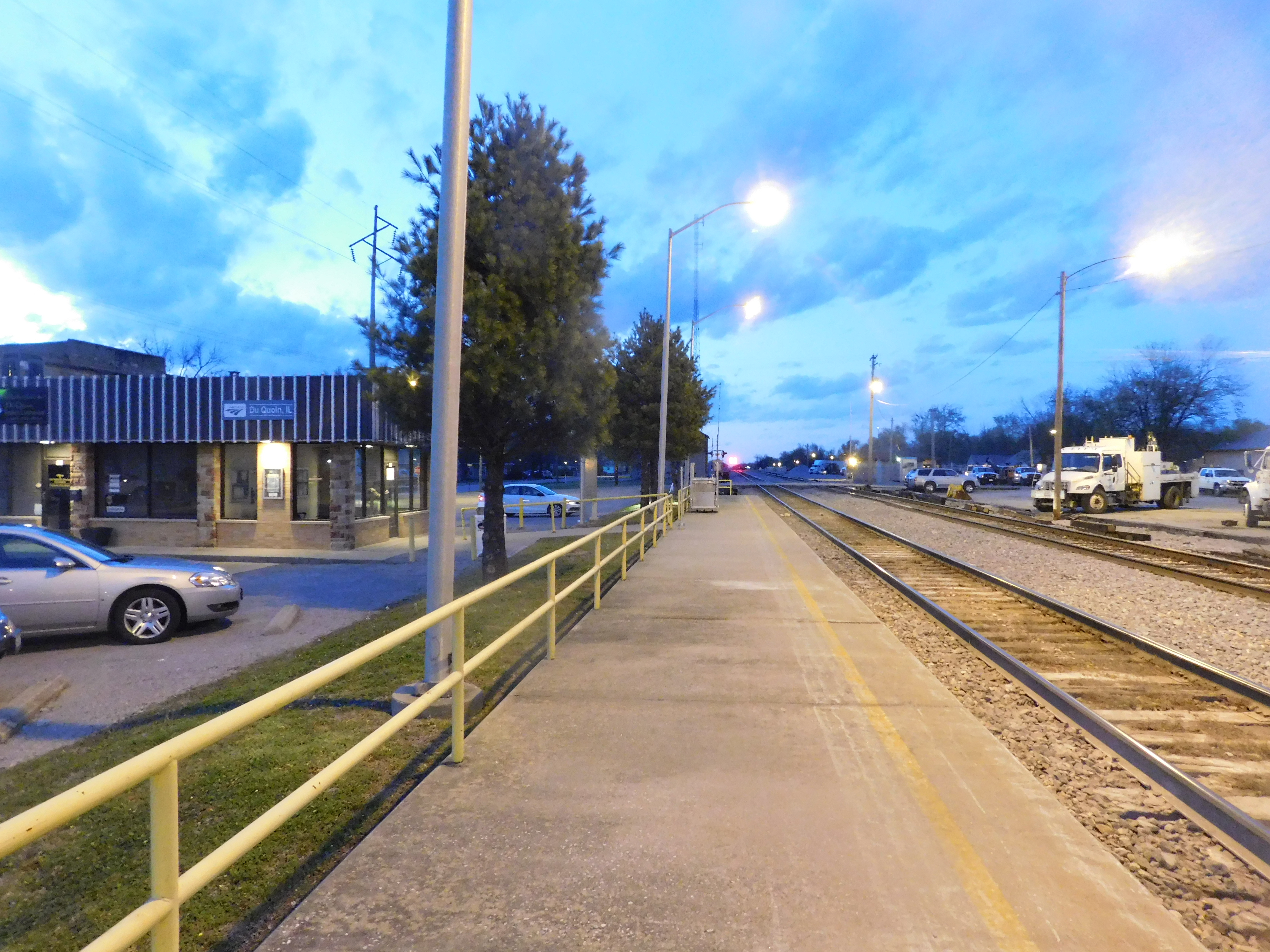 Du Quoin station in Du Quoin, Illinois for the Amtrak Illinois Service.